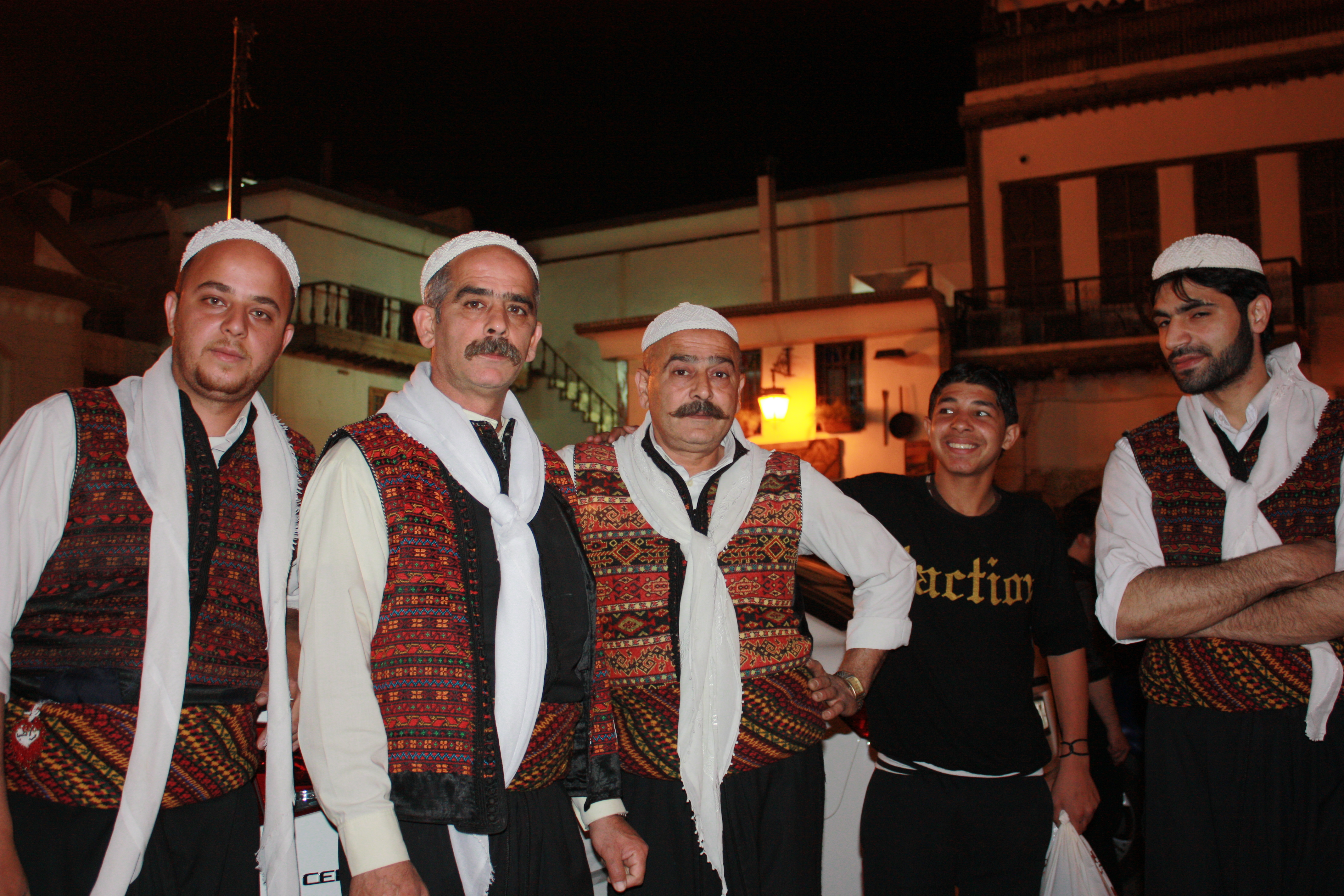 Damascus, traditional clothing